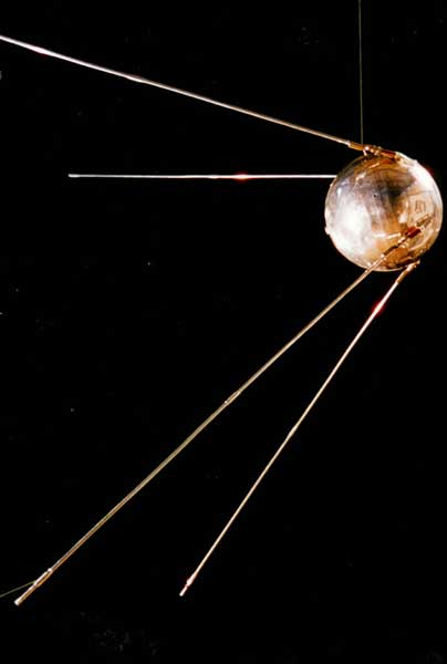 Sputnik 1